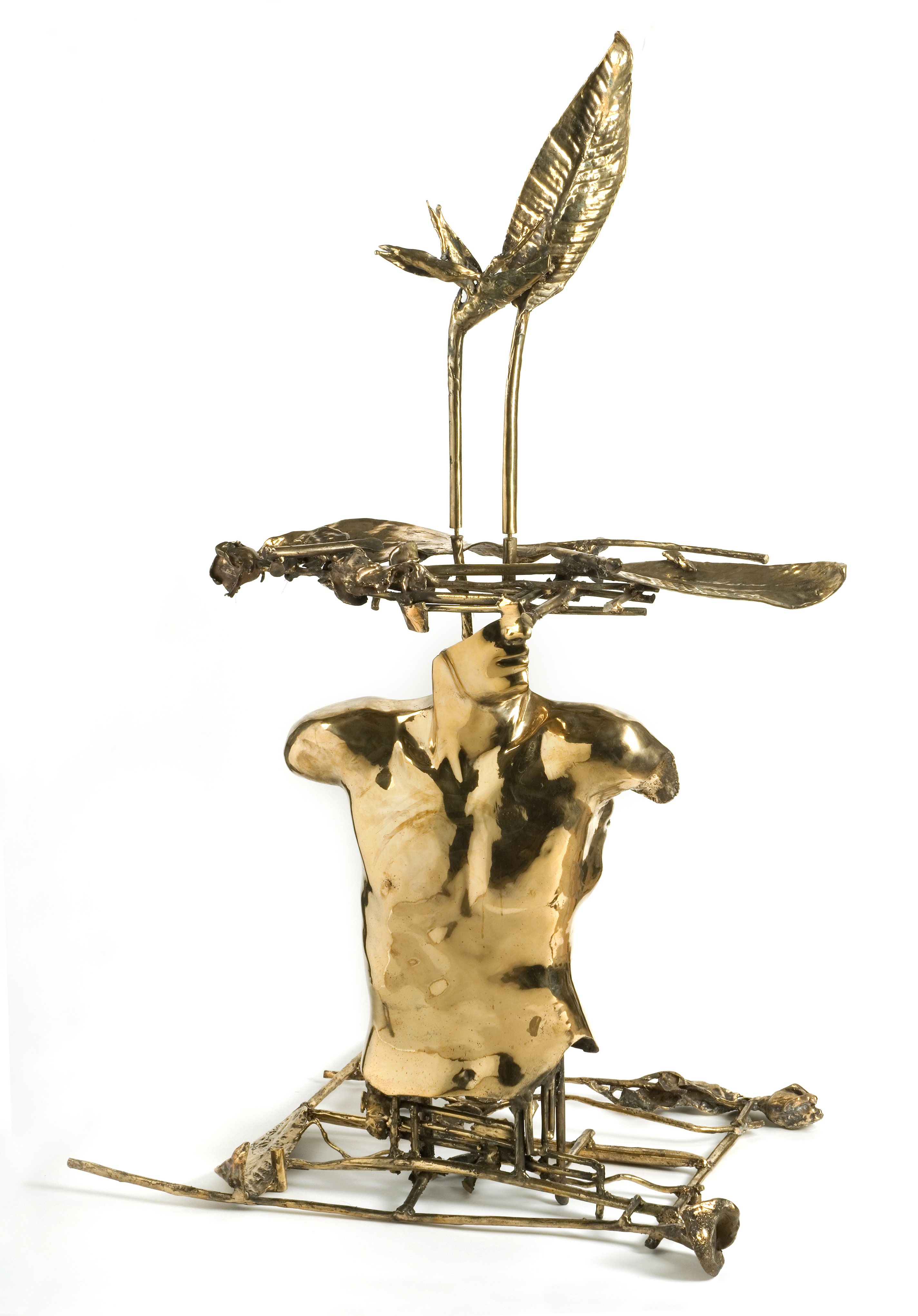 Adam and Eve 2005 (2)